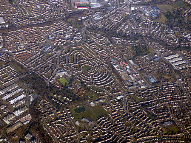 Hamilton from the air